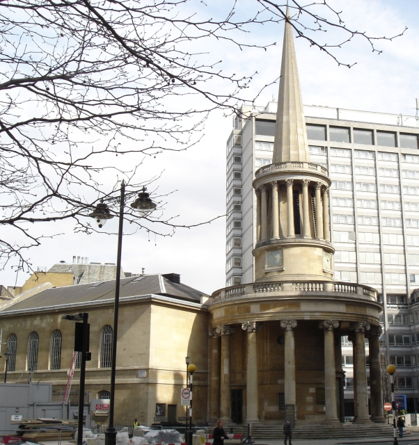 Photo taken by lonpicman